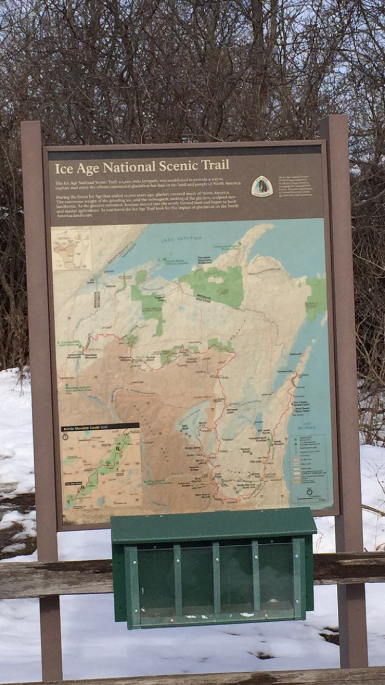 Ice Age Trail